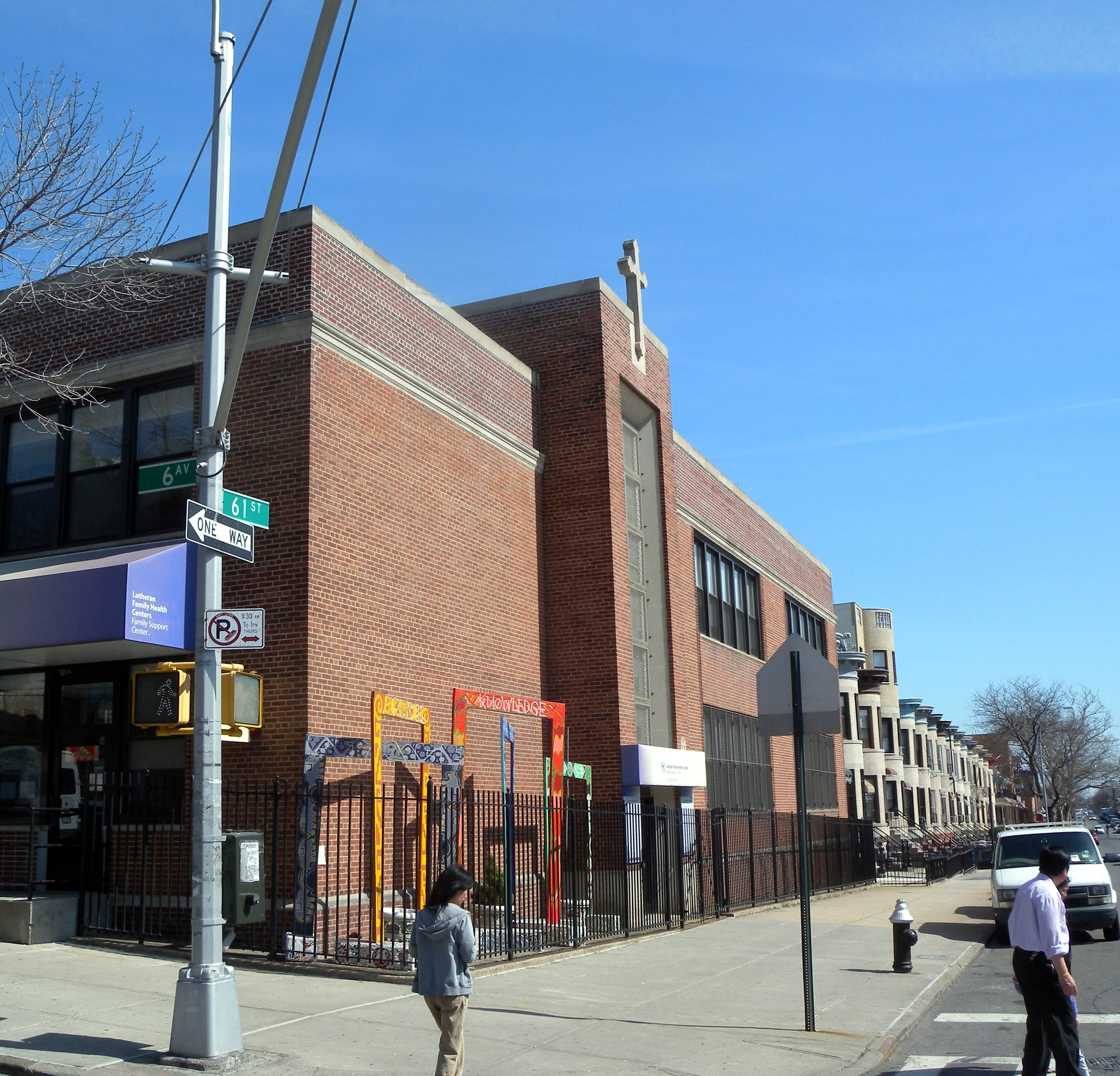 Looking east across 6th Avenue and 51st Street at Lutheran Family Health Center on a sunny early afternoon.